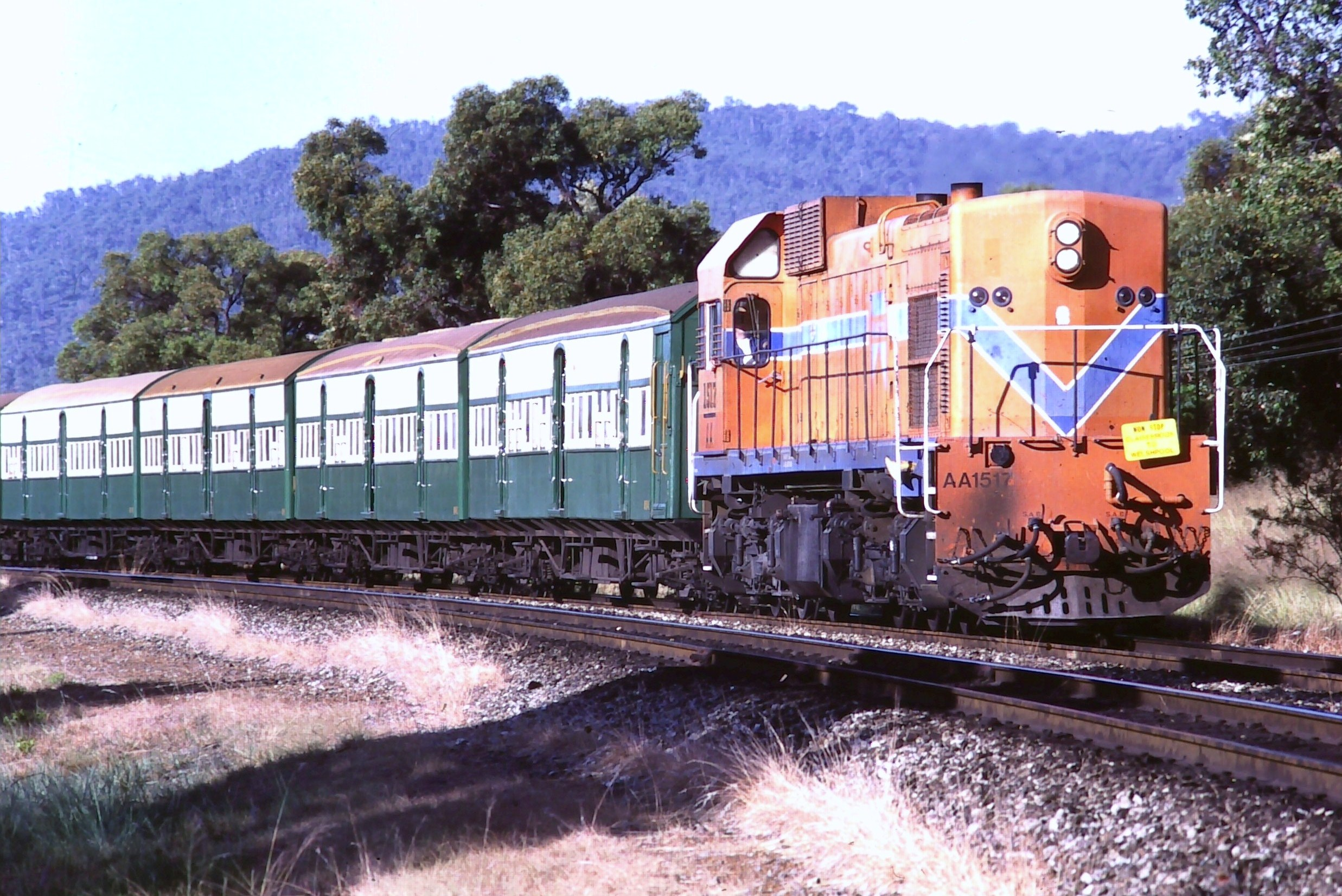 With the Darling Scarp in the background, Western Australian Government Railways (WAGR) A class locomotive no AA1517, in Westrail orange and blue livery, swings around the bend between Kelmscott and Challis with an Armadale Line afternoon commuter train from Perth to Armadale in Western Australia. The yellow sign on the front of the locomotive reads "Non stop Claisebrook to Welshpool". In 1998, this locomotive, along with six of its sister locomotives, was exported from Fremantle Harbour, after being purchased by the Ferrocarril de Antofagasta a Bolivia (FCAB) for conversion to metre gauge and use on that company's railway in Chile. As of 2012, the locomotive was still in service on the FCAB, as FCAB road number 1434.Kodachrome slide converted by Kaiser Baas Photo Maker Pro into a digital image.